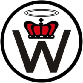 The Creativity symbol as it appeared on the first edition of Nature's Eternal Religion